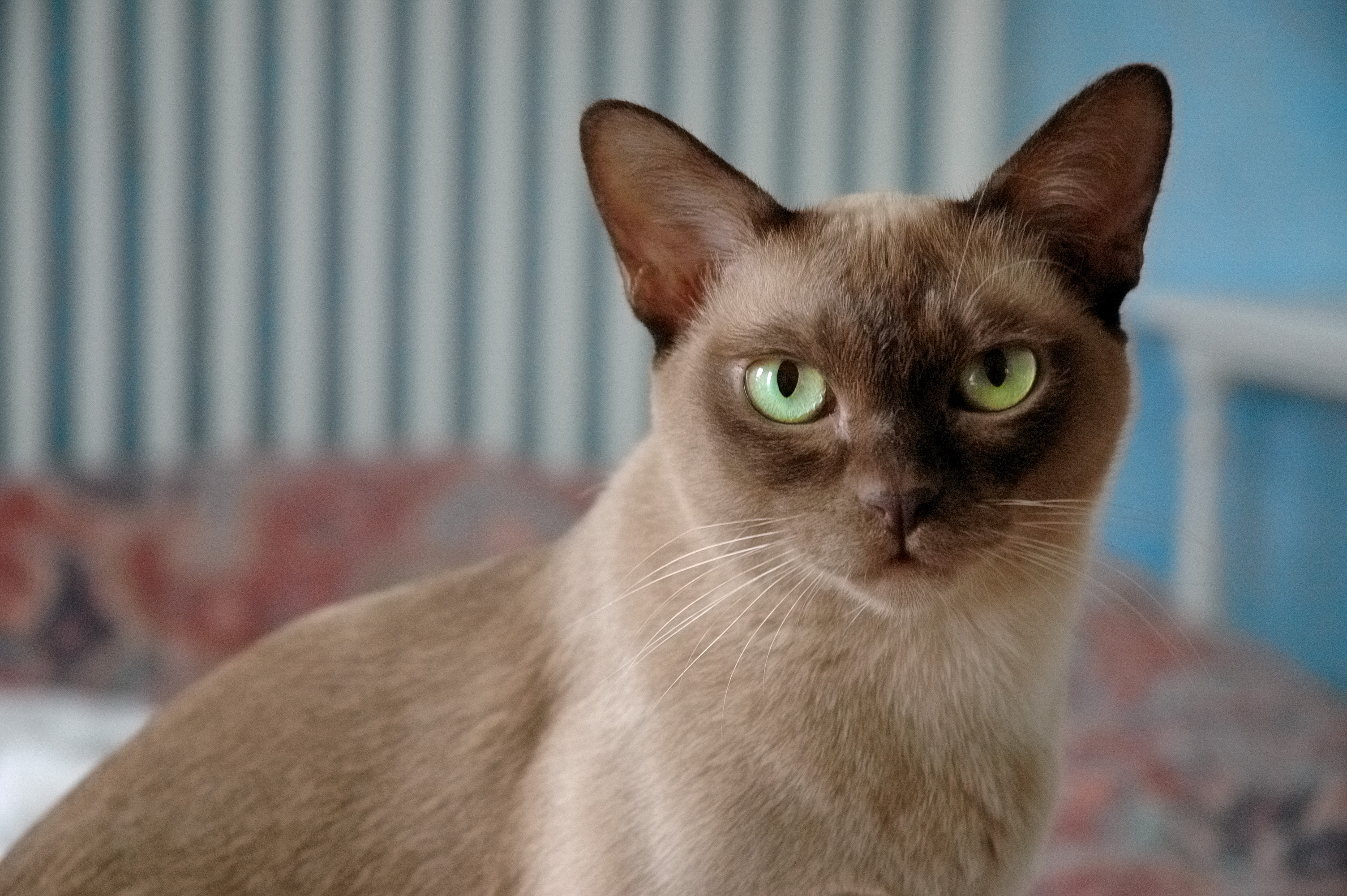 S*Corin's Felicia Swiss - mother to little Geisha - most loveable she is! Star of the Week, displayed at Cat friends frontpage for week 41 2010.